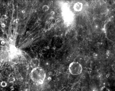 Clementine image from Map-A-Planet (Dufay is the dark-looking crater at centre of image).